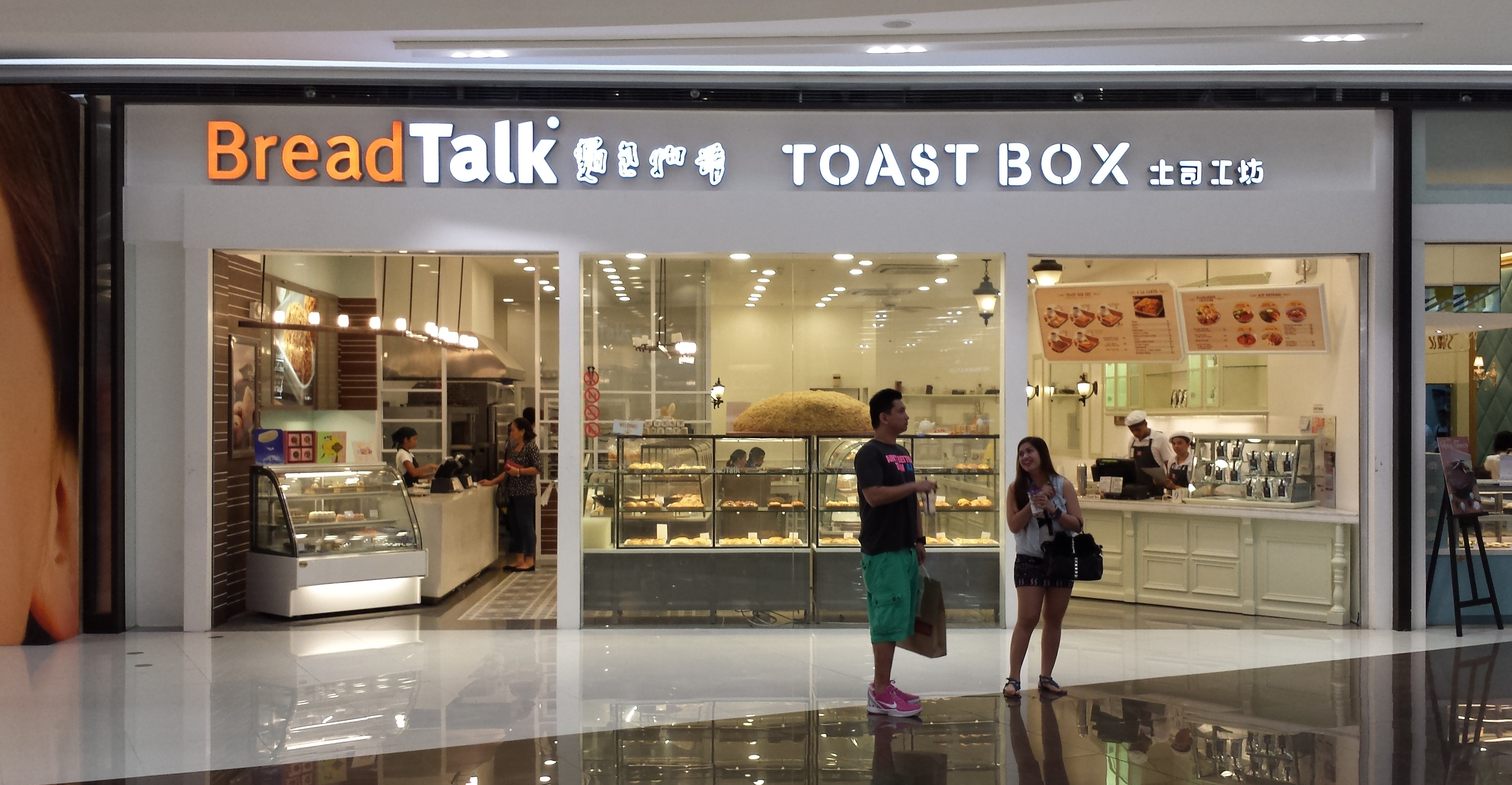 A 'Bread Talk' shop in the mall 'SM Aura Premier' in Bonifacio Global City, Metro Manila, Philippines.